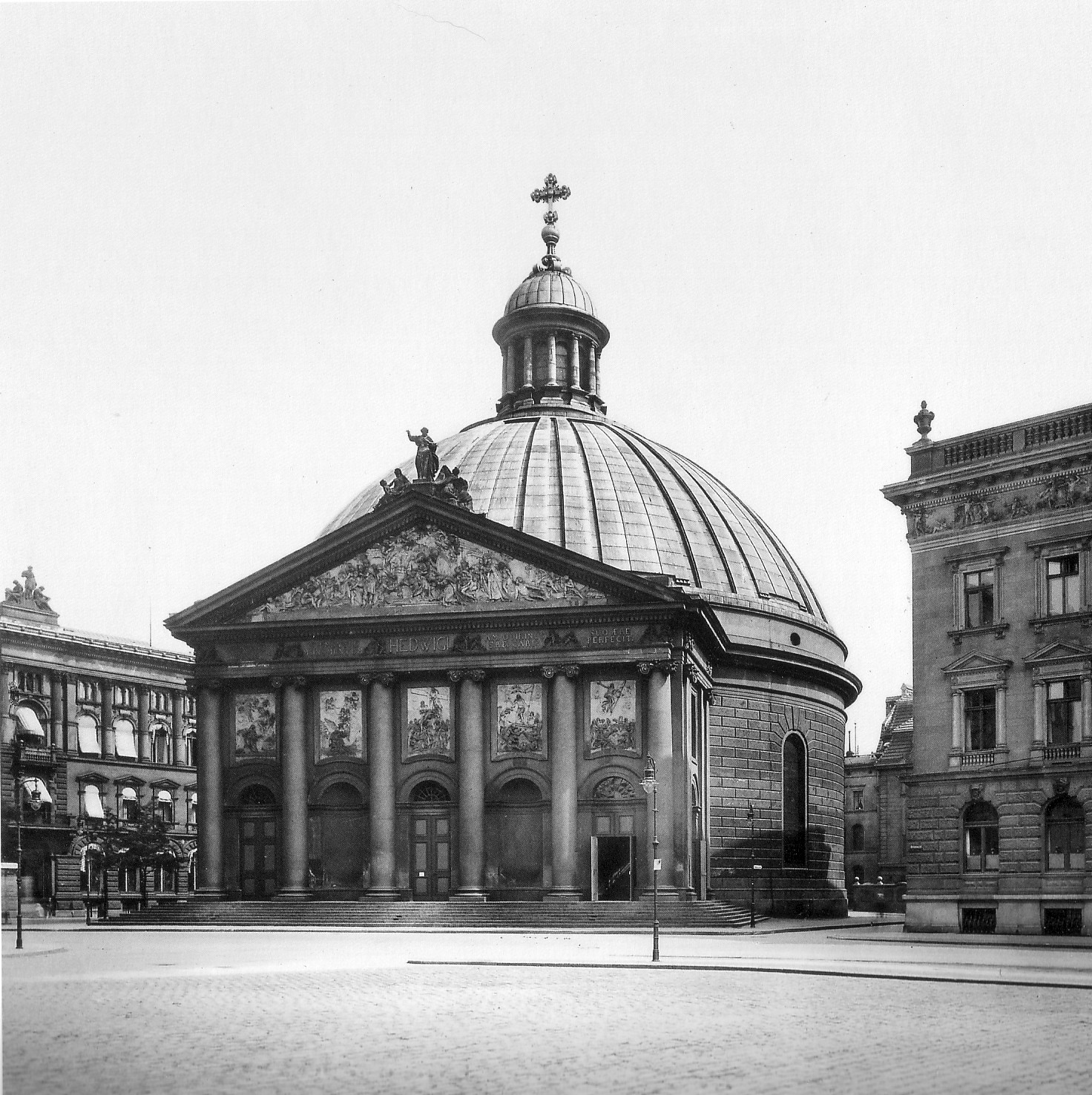 The Catholic St Hedwig's church at Opernplatz (today: Bebelplatz) in Berlin (Germany). Erected between 1747 and 1773.